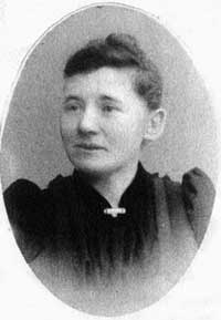 Swedish female labour leader Anna Sterky